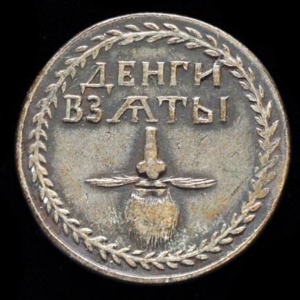 A beard token, received for paying the Russian beard tax.